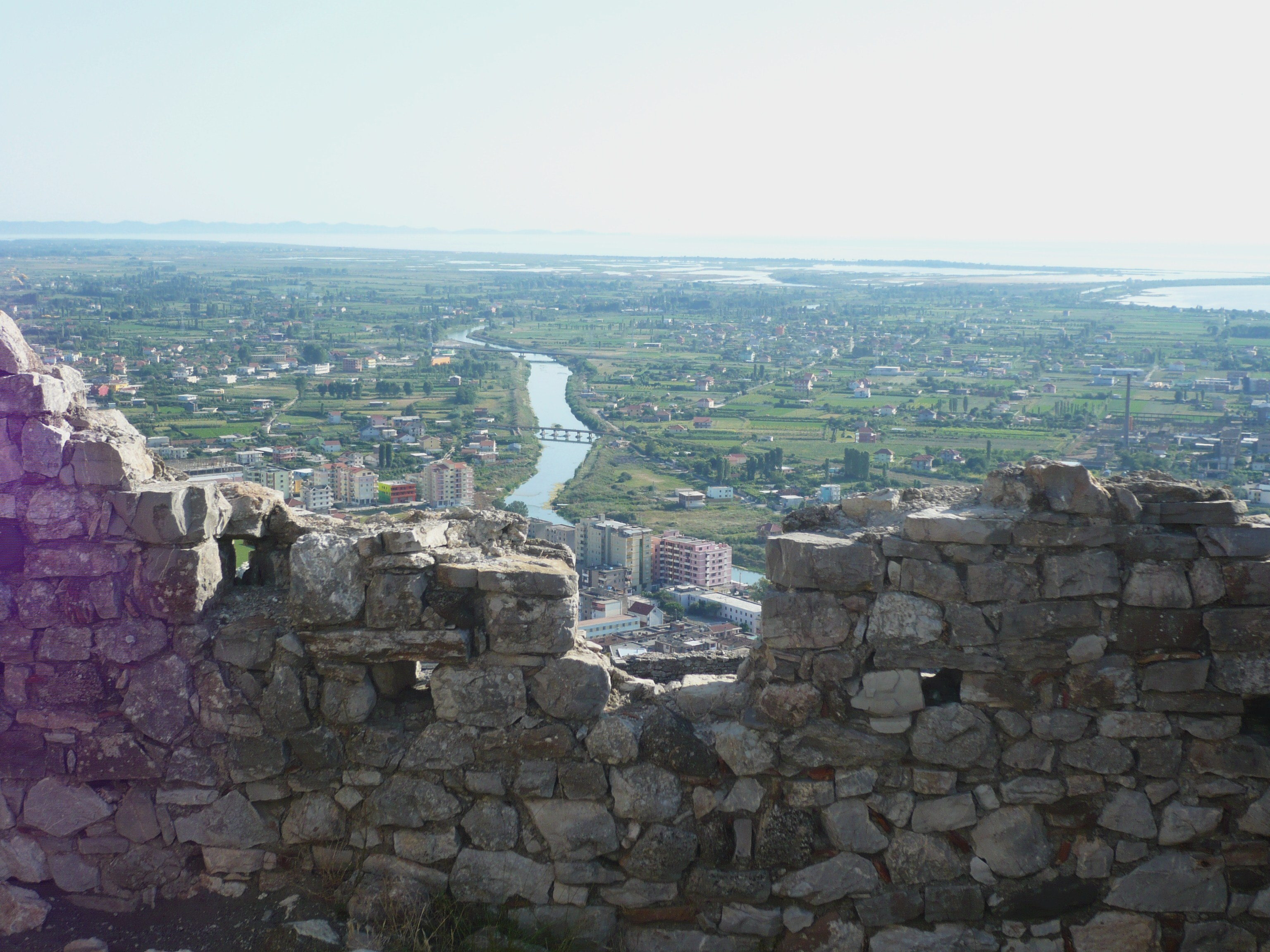 Lezhë Castle, Lezhë, Albania, with a view on the city in the background